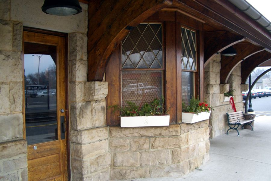 Personal photo of Little Silver, NJ Train Station ticket window. This is a contemporary photo of the Little Silver station designed by H.H. Richardson for the New York and Longbranch (Pennsylvania Railroad). The picture shows the station agent's bay window (not the ticket window, which was inside). The New York and Longbranch is now called the North Jersey Coast Line and is operated by New Jersey Transit, "New Jersey's public transportation corporation."